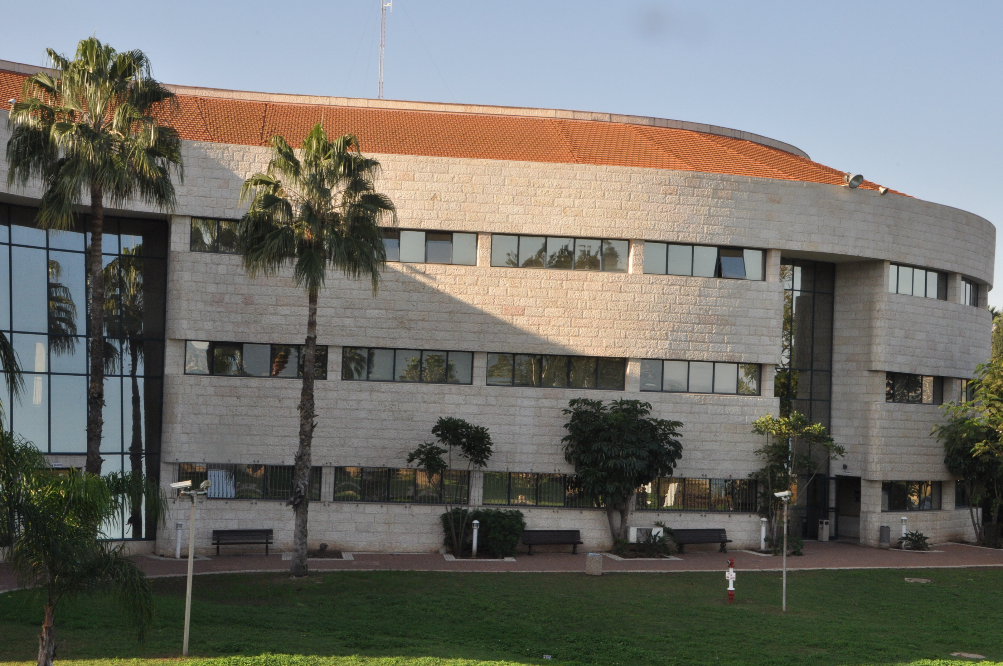 Kinneret college Trigobof building